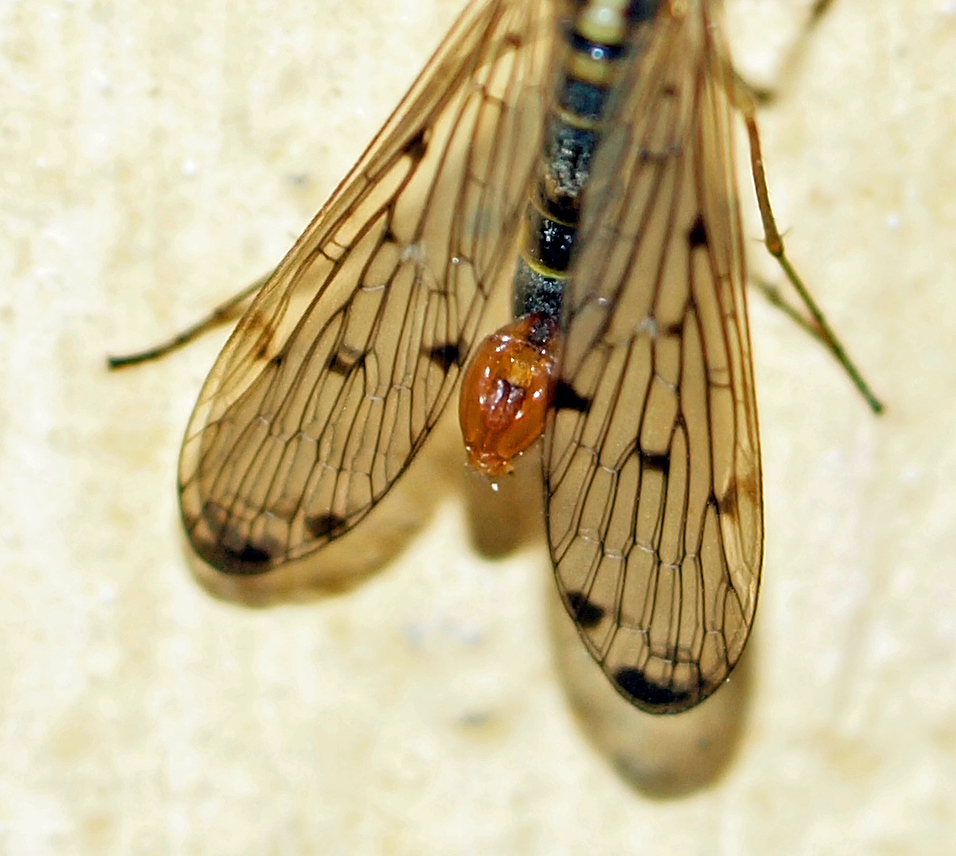 Panorpa germanica, male,details. Austria, Styria, Gamskogel near Kleinstübing, about 550 m